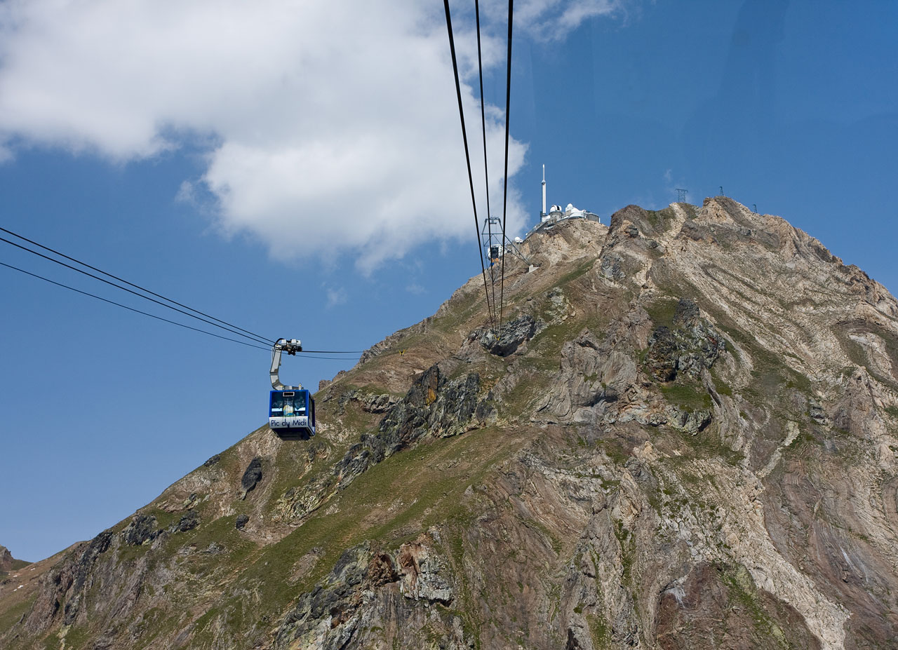 The cabel car to the top of Pic du Midi (2877m), France. Norsk (bokmål): Banen opp til toppen av Pic du Midi i Frankrike.